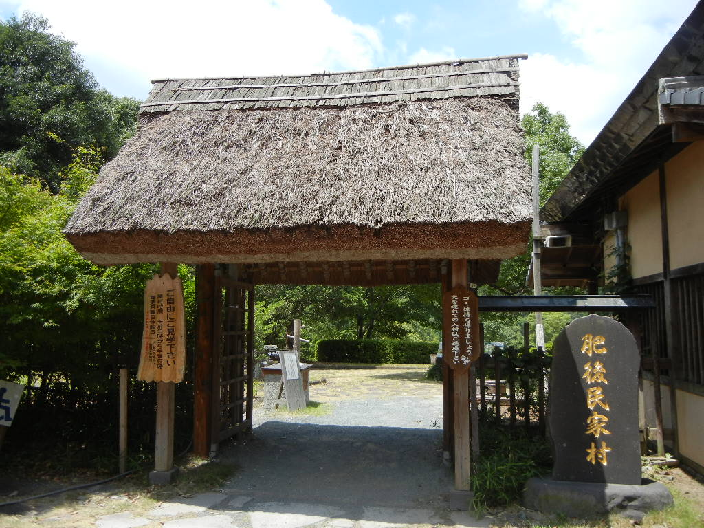 Higominkamura. 熊本県和水町にある肥後民家村, Nagomi.